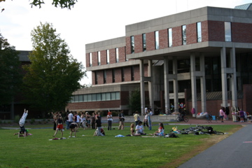 Hampshire College, Amherst, Massachusetts: Library Lawn during Circus Practice.